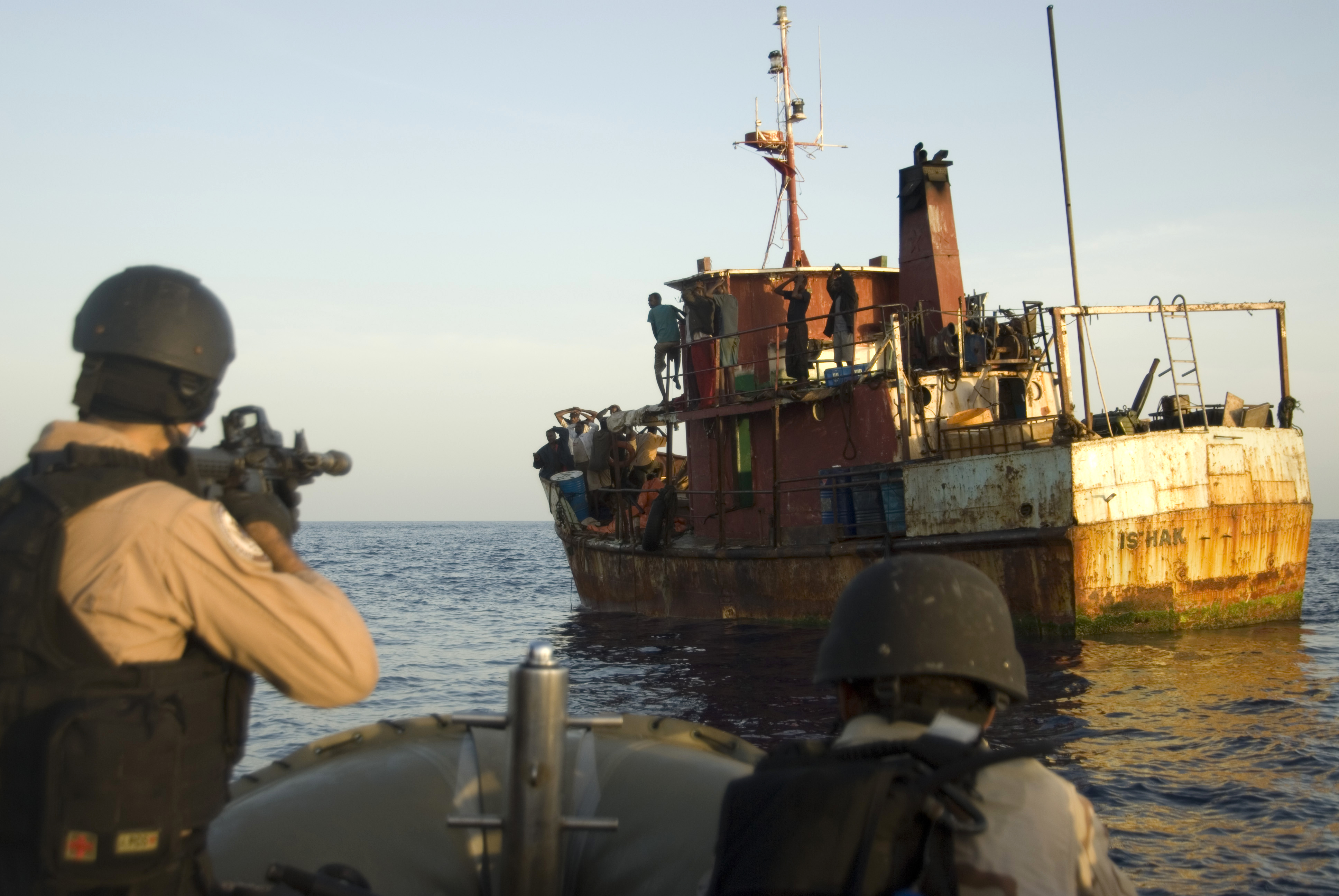 090513-N-0743B-084 GULF OF ADEN (May 13, 2009) Members of a visit, board, search and seizure (VBSS) team from the guided-missile cruiser USS Gettysburg (CG 64) and U.S. Coast Guard Tactical Law Enforcement Team South Detachment 409 capture suspected Somali pirates after responding to a merchant vessel distress signal while operating in the Combined Maritime Forces (CMF) area of responsibility as part of Combined Task Force (CTF) 151. CTF 151 is a multinational task force established to conduct counter-piracy operations under a mission-based mandate throughout the CMF area of responsibility to actively deter, disrupt and suppress piracy in order to protect global maritime security and secure freedom of navigation for the benefit of all nations. (U.S. Navy photo by Mass Communication Specialist 1st Class Eric L. Beauregard/Released)